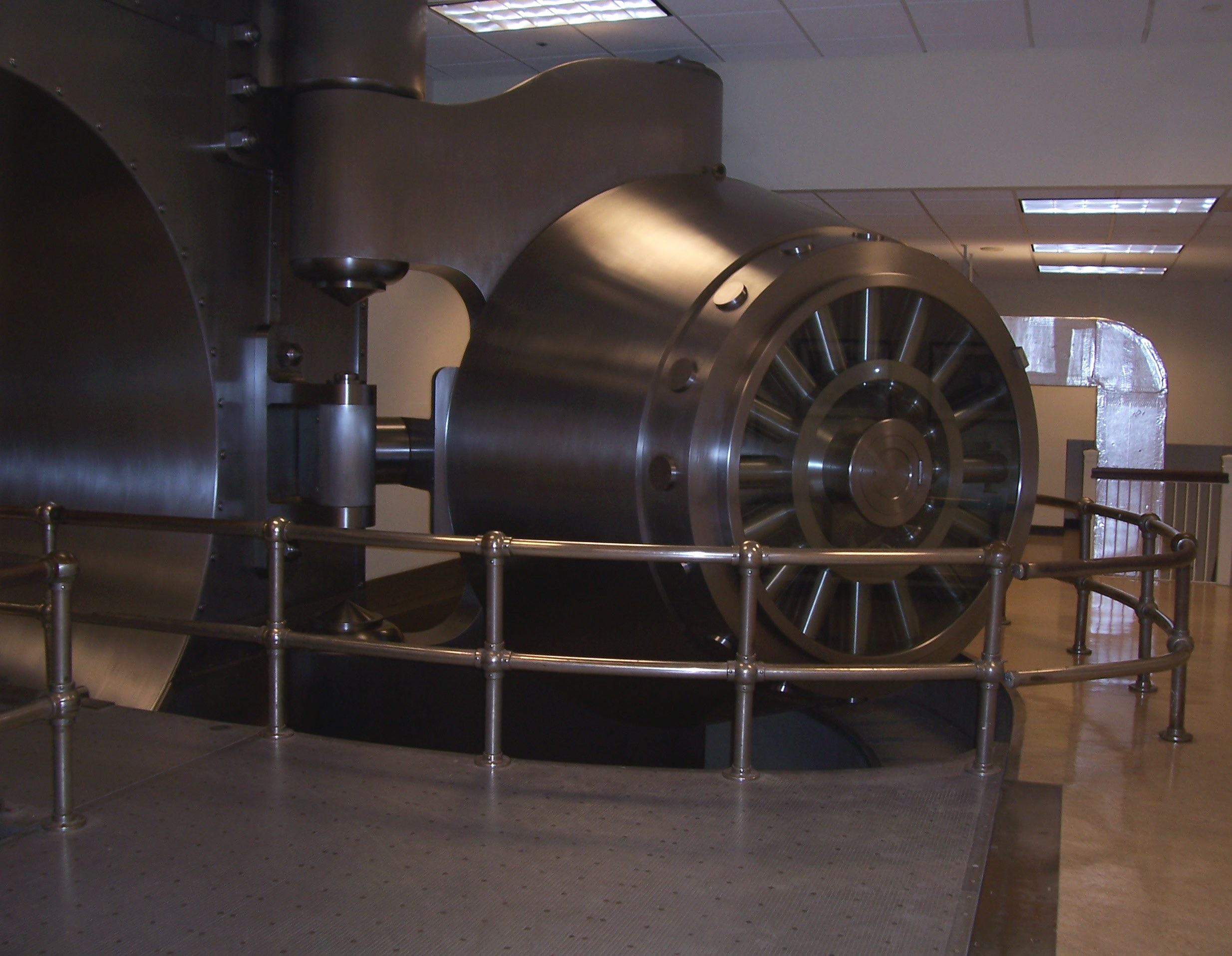 I took this picture on August 11, 2006 on my last day of interning at the Federal Reserve Bank of Cleveland.